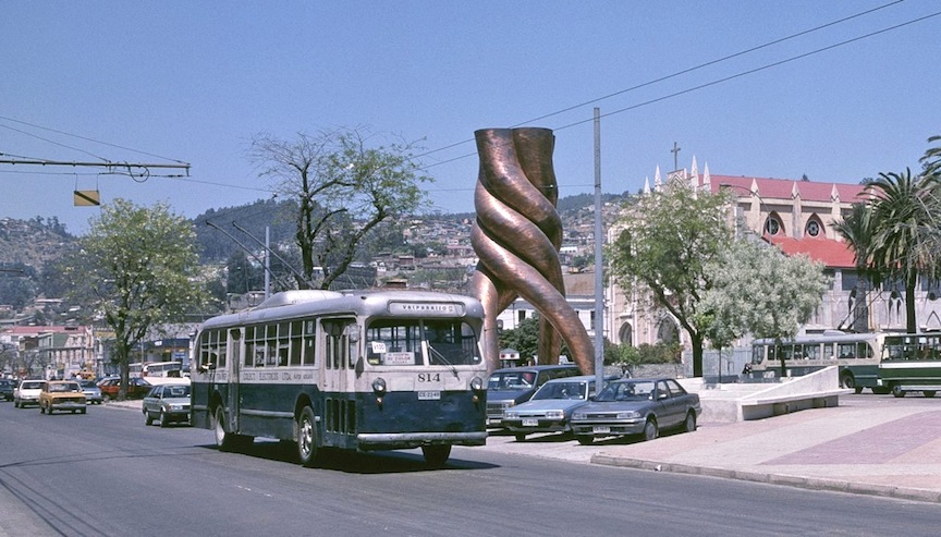 Valparaíso trolleybus No. 814 was built in early 1947 by the Pullman-Standard Company and was originally purchased for use in Santiago. Along with several other trolleybuses, it was transferred circa 1954 to the Valparaíso trolleybus system, owned by the same operating company, and it has remained in Valparaíso ever since. By 1992 it was the oldest trolleybus still fitted with its original, unmodified body remaining in normal passenger service anywhere in the world. It is pictured northbound on Avenida Argentina just south of Avenida Pedro Montt in 1996. Trolleybus 814 was repainted in a revised paint scheme in 2003 and is still in regular, daily service in Valparaíso in 2017. In the background are the hills surrounding the town and, closer, the Church of the 12 Apostles (Iglesia de los Doce Apóstoles) and a Pullman trolleybus that was rebuilt in the late 1980s with new side windows and a more square-shaped rear.